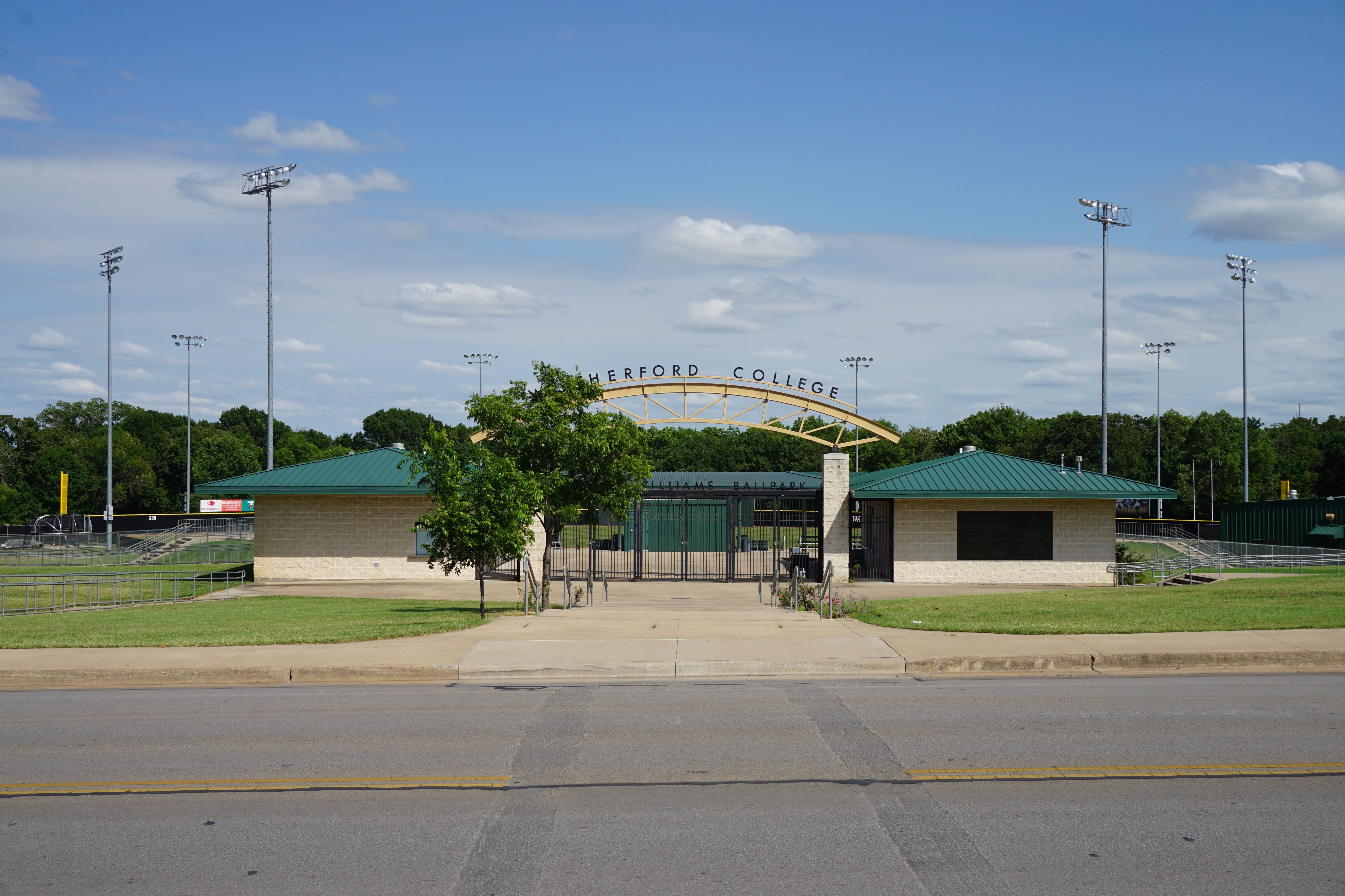 Roger Williams Ballpark on the campus of Weatherford College in Weatherford, Texas (United States).